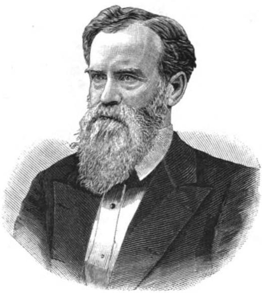 Kentucky Congressman Elijah Phister